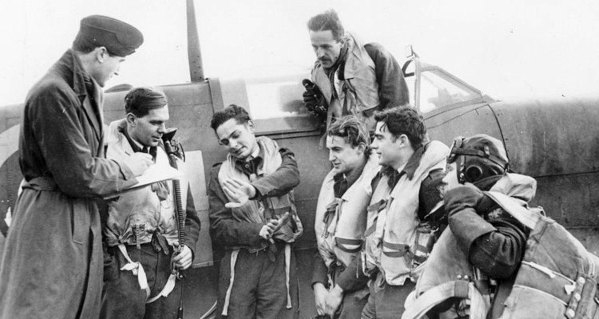 The Intelligence Officer at the headquarters of the second Eagle Squadron (121 Squadron), Sir Michael Duff-Assheton-Smith, takes notes as pilots describe their most recent sortie. They are, (L to R) Sq. Ldr. Powell; Pilot Officers W. James Daly, Hugh Kennard, Le Roy A. Skinner, Clarence Martin, and (standing in the cockpit), R. Fuller Patterson.